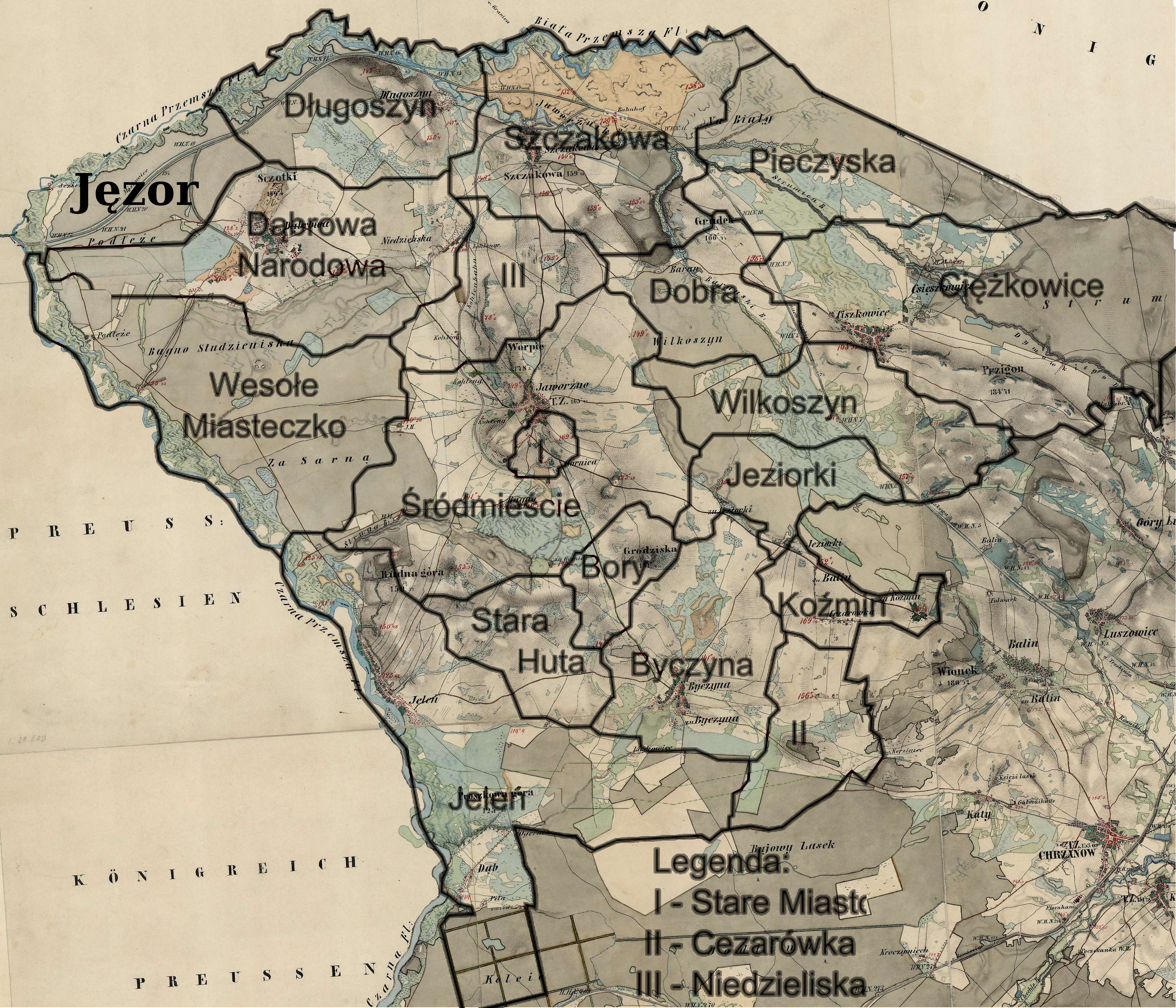 Modern dIstricts of Jaworzno imposed on an austrian map